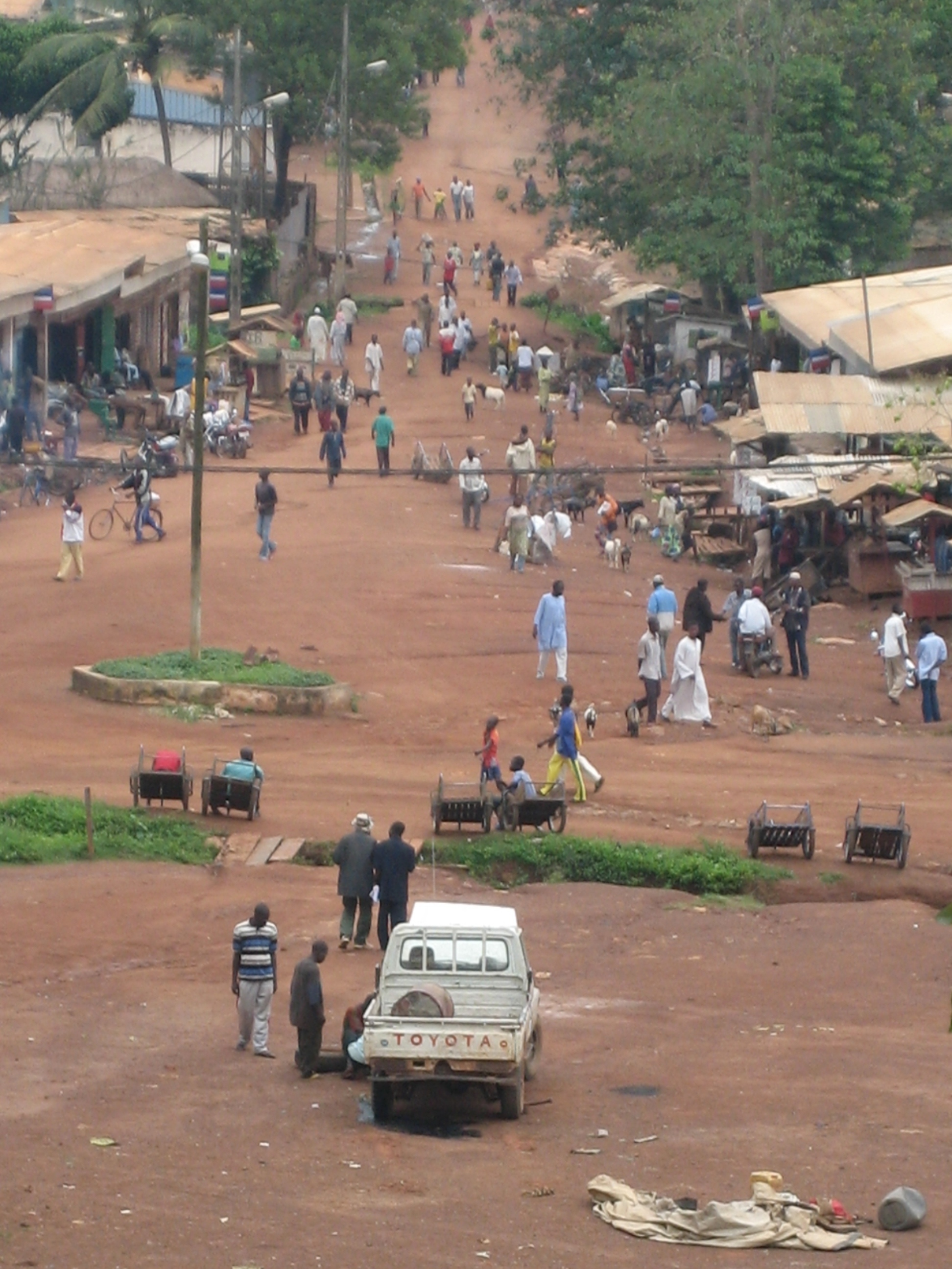 Market in the city of Boda in Central African Republic.